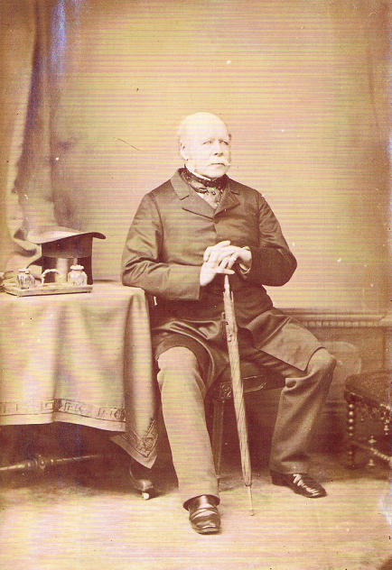 Photograph of General Henry Aitchison Hankey